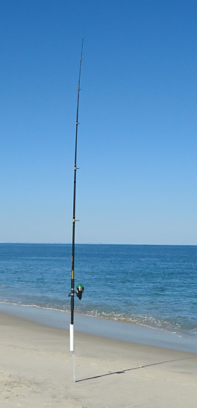 Fisherman pole at Sandy Hook beach in New Jersey.